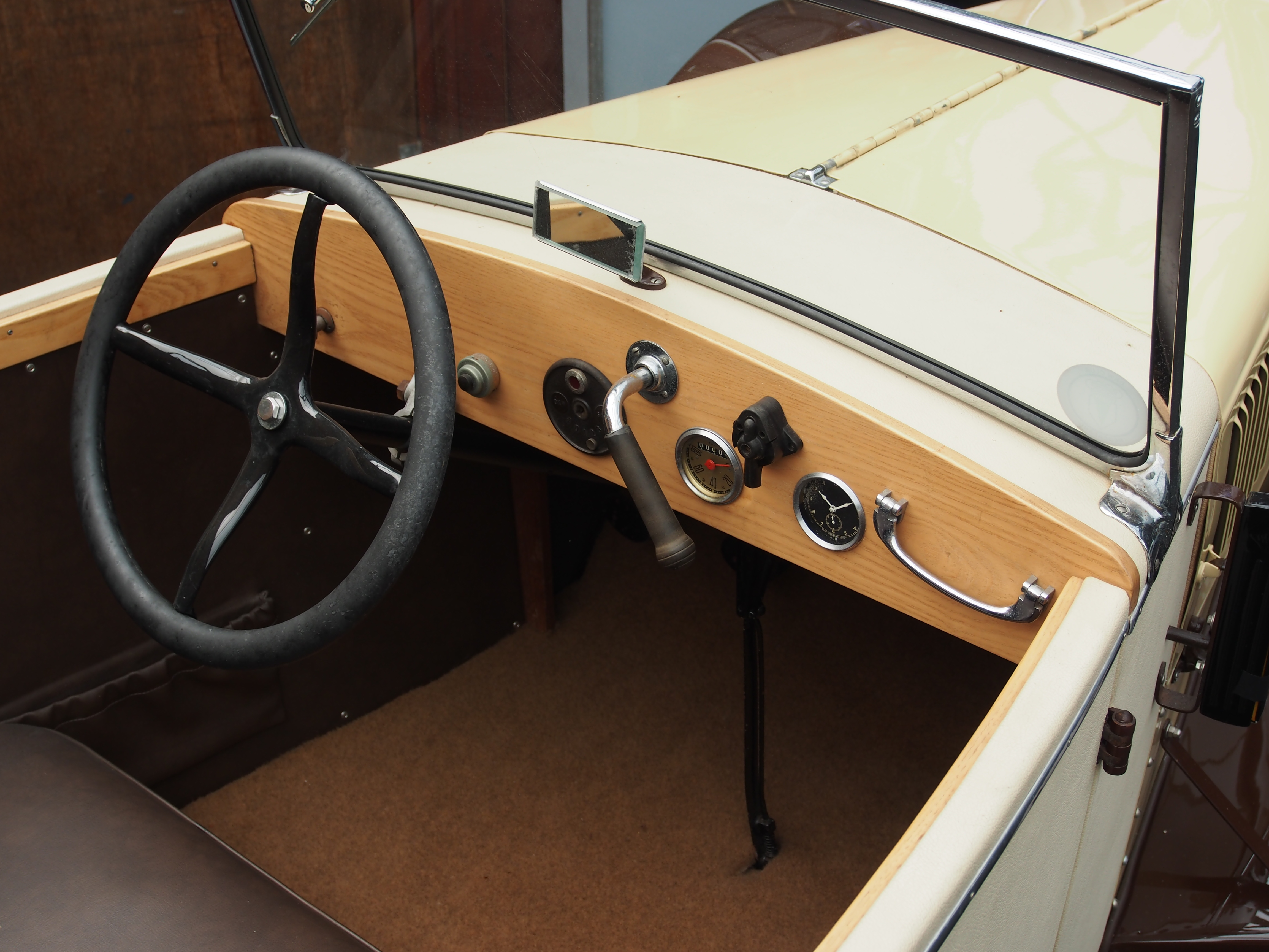 Photographed in the Auto-Union Museum in Bergen, The Netherlands.